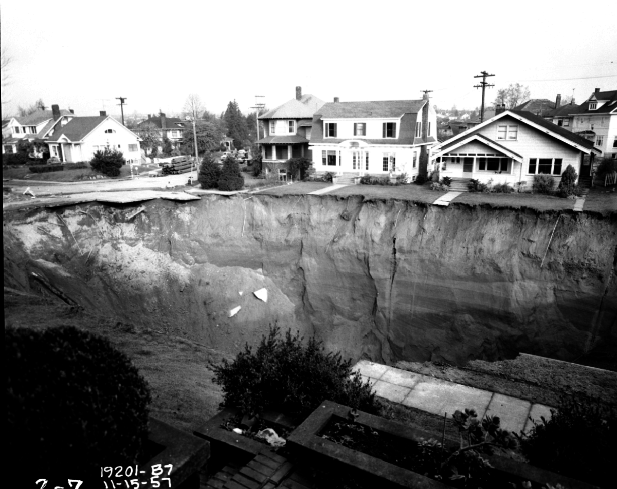 The Great Ravenna Boulevard Sinkhole, 1957. Ravenna Boulevard and 16th Ave NE, Seattle, Washington. Item 56016, Engineering Department Photographic Negatives (Record Series 2613-07), Seattle Municipal Archives.